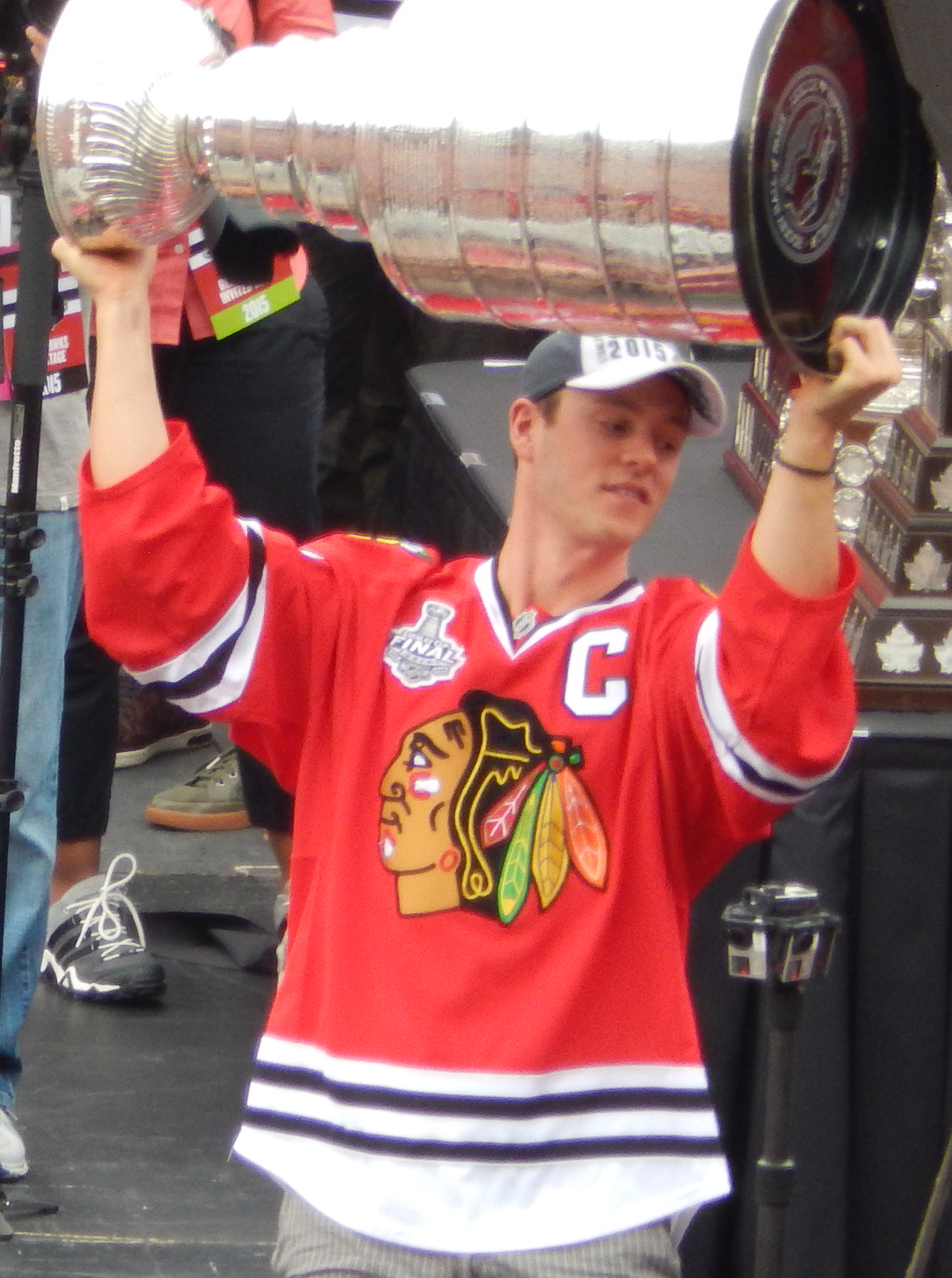 Jonathon Toews lifts the Stanley cup in 2015